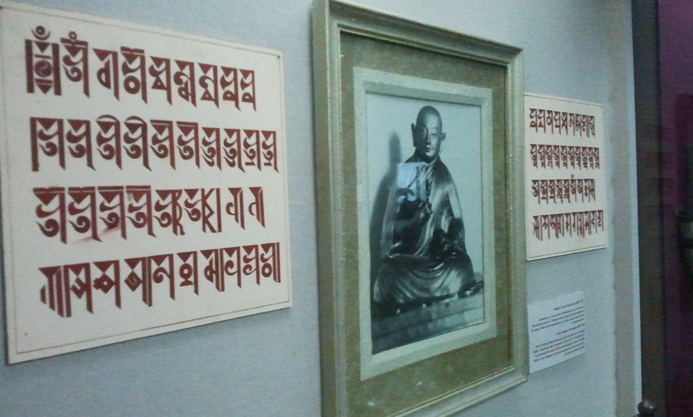 Zanabazar (1635-1723) next to the Soyombo script he created in 1686.